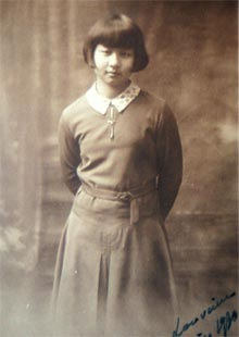 Qin Xiuling